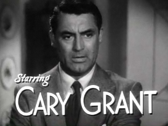 Screenshot of Cary Grant from the trailer for the film Every Girl Should Be Married (1948)